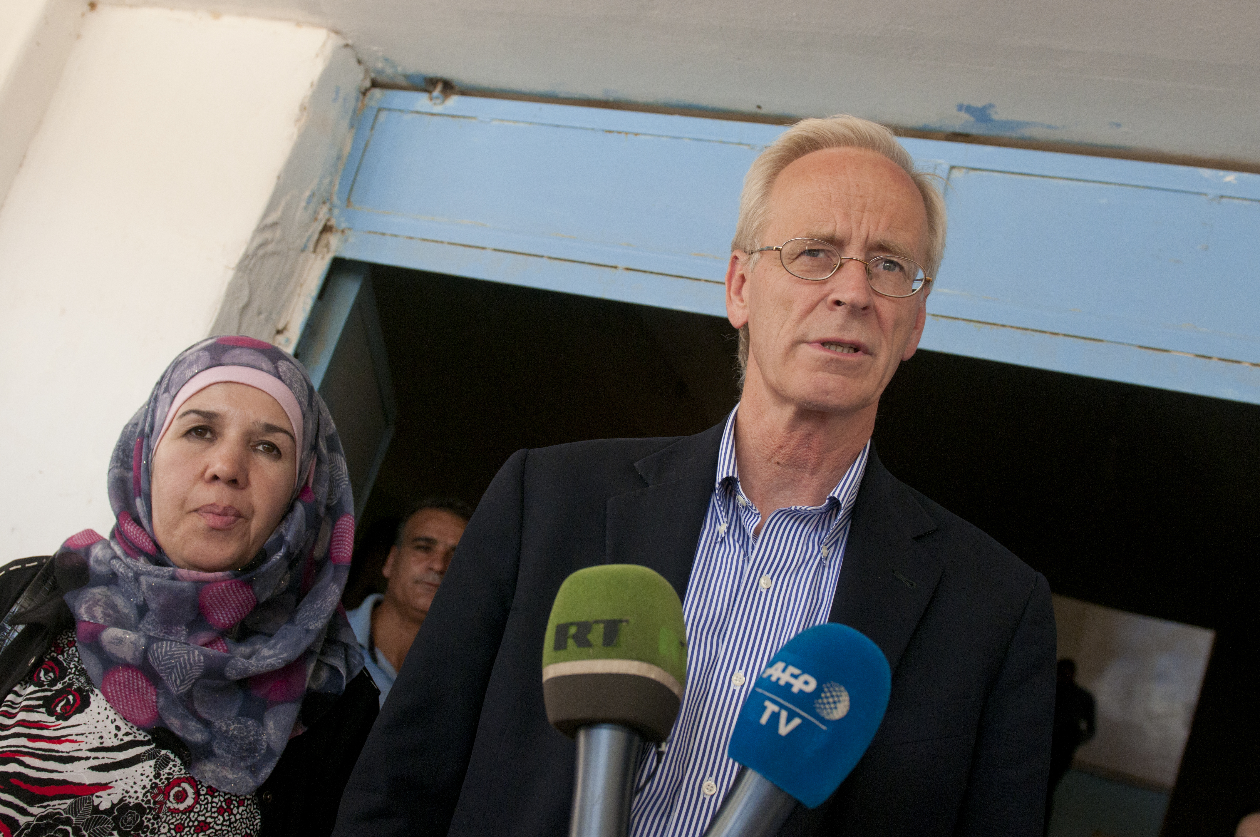 William V. Roebuck, senior advisor in the Special Envoy Office for the Coalition to defeat ISIS, provides a public statement alongside Samar Abdullah, co-president of Hasakah Canton Civil Council, in Shaddadi, Syria, Aug. 25, 2018. Roebuck’s visit reaffirms the Coalition’s commitment to provide enduring security and stability in the region. (U.S. Army photo by Spc. Alicia Pennisi)